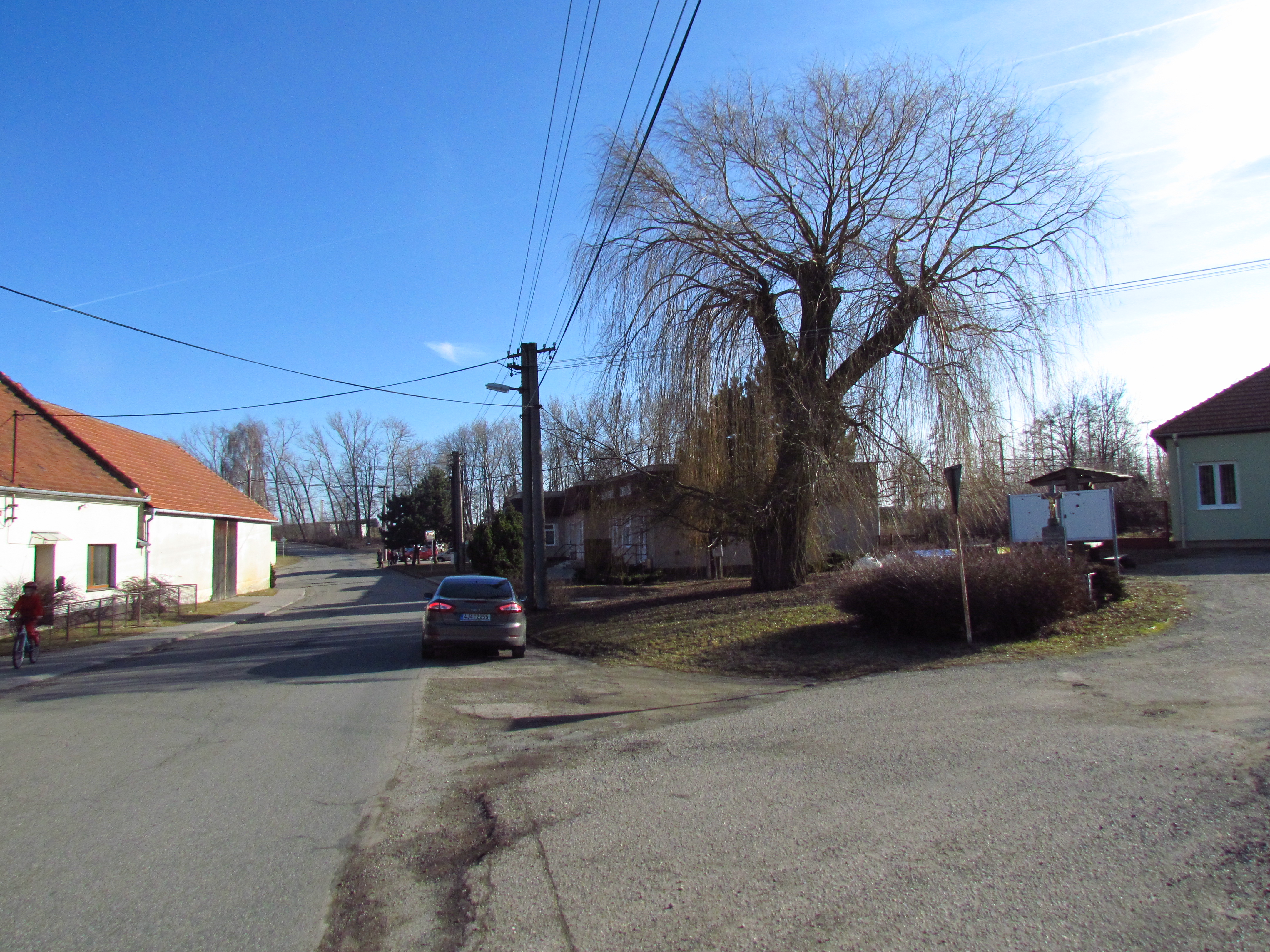 Center square of Sedlec, Třebíč District.